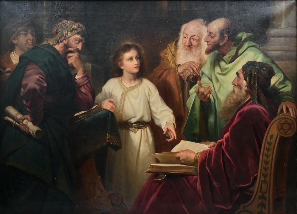 "Jesus among the Doctors", 1884 - Oil on Canvas, 67 x 90.5 cm. - ©Hamburger Kunsthalle/bpk.